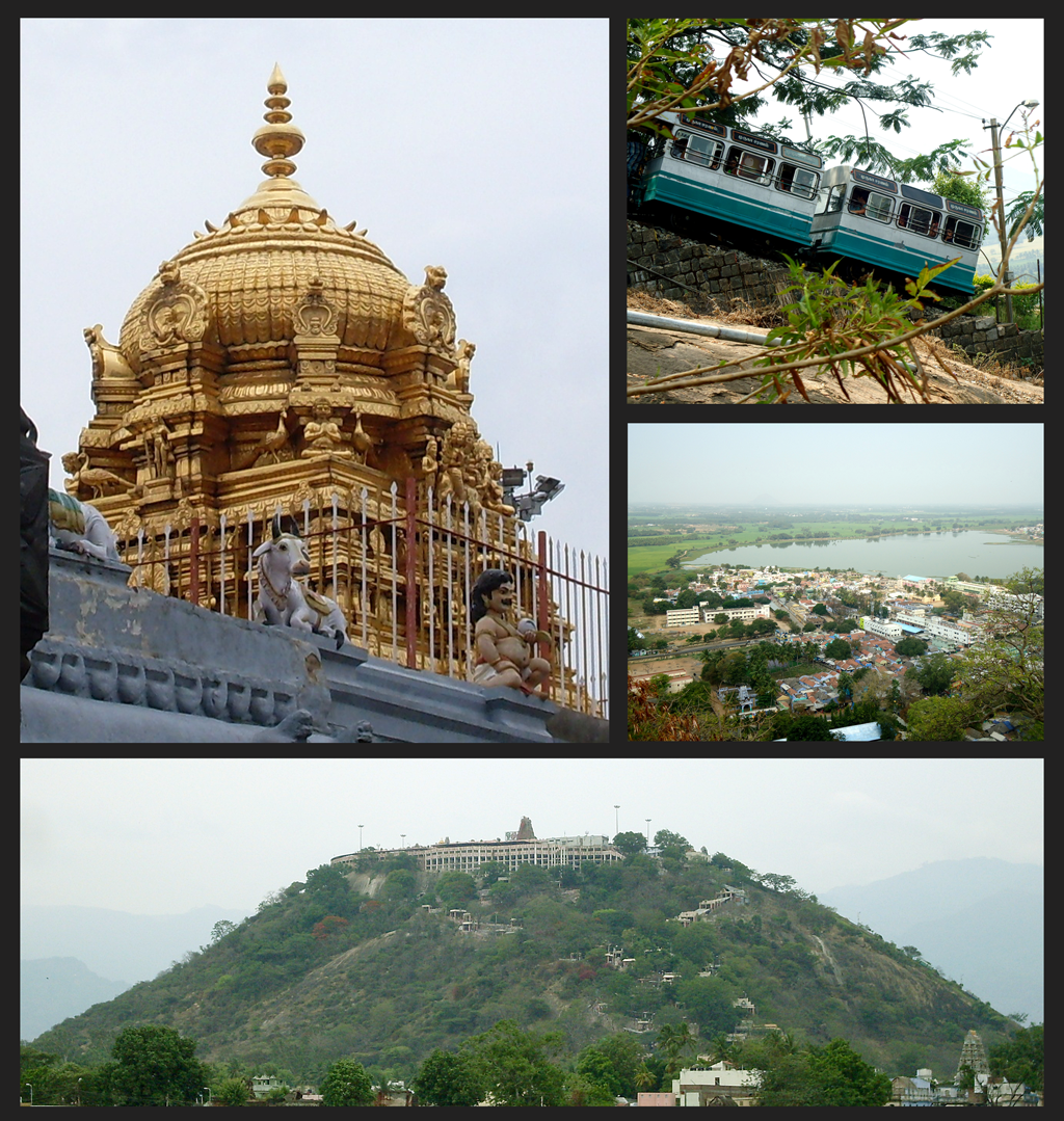 Palani Montage with Images from wikimedia commons